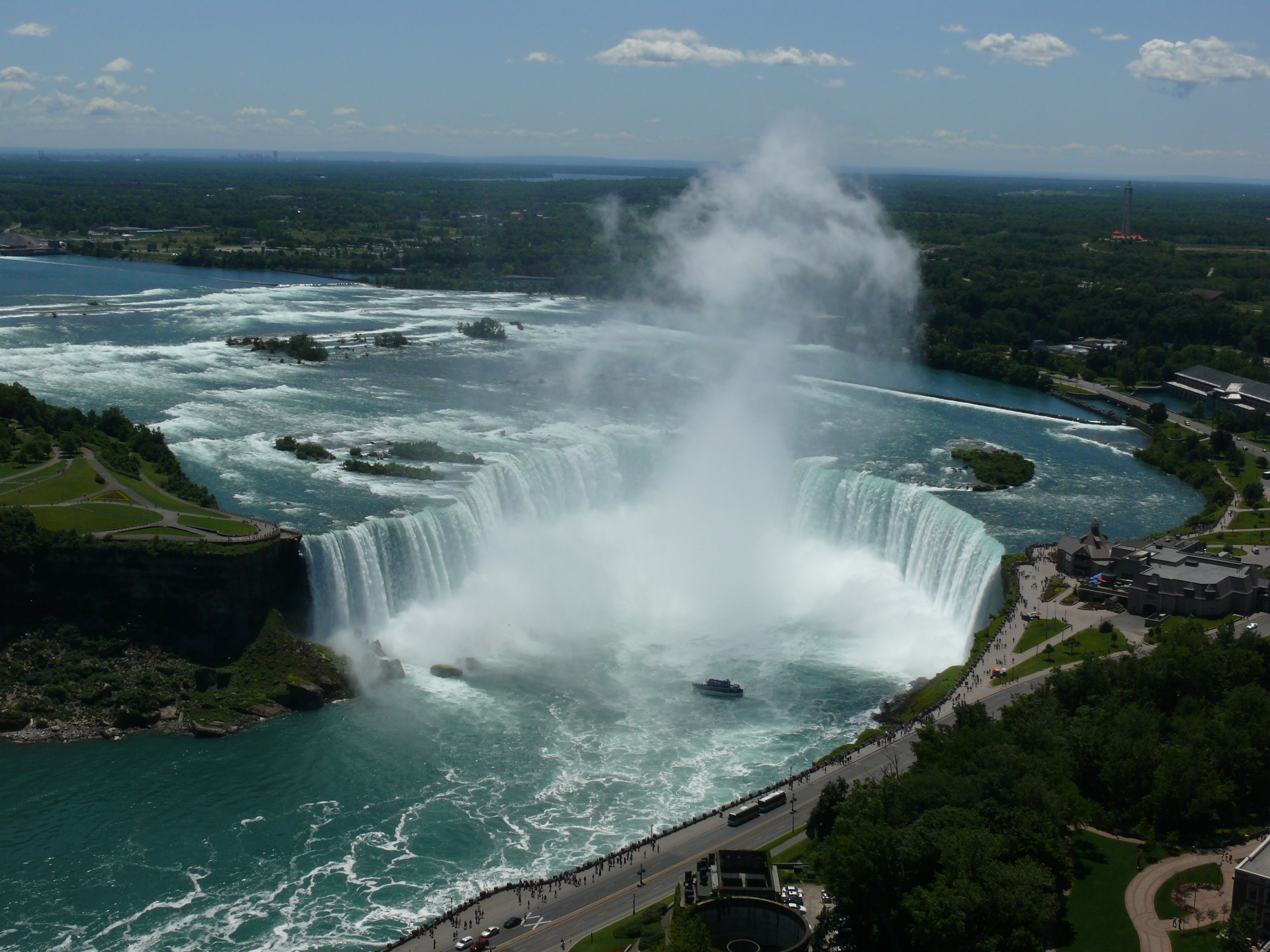 Horseshoe Falls (Niagara Falls) as seen from the Skylon Tower (Niagara Falls, Ontario).